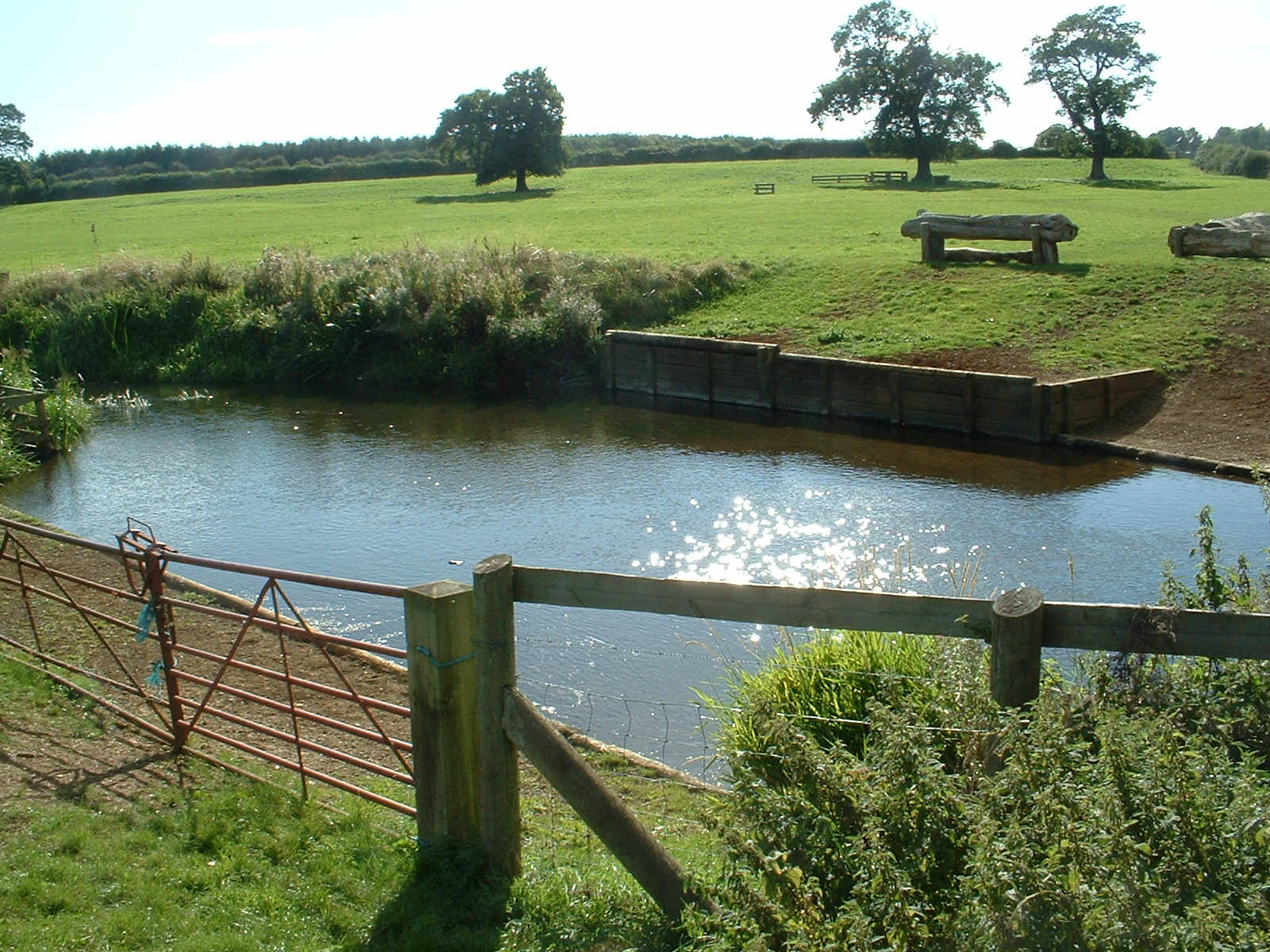 The River Leam near Offchurch Bury, Warwickshire. Taken by Necrothesp, 28 August 2005.